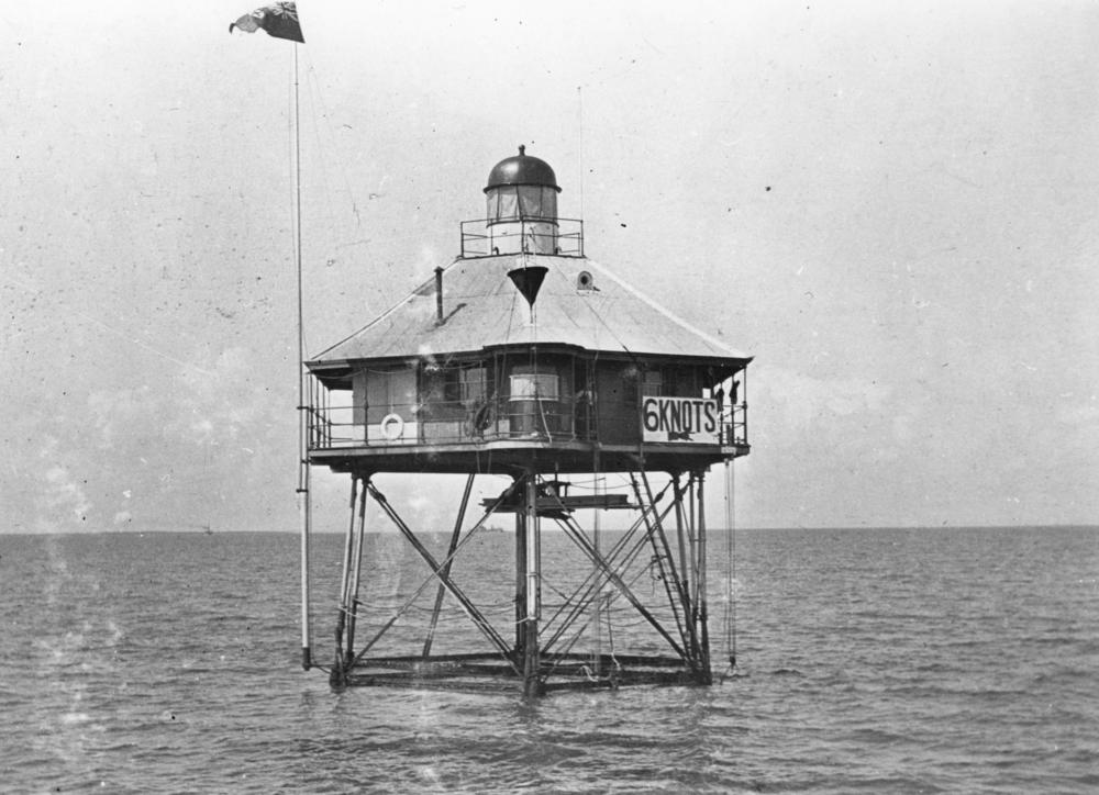 Pile Lights at the mouth of the Brisbane River, Moreton Bay, ca. 1912